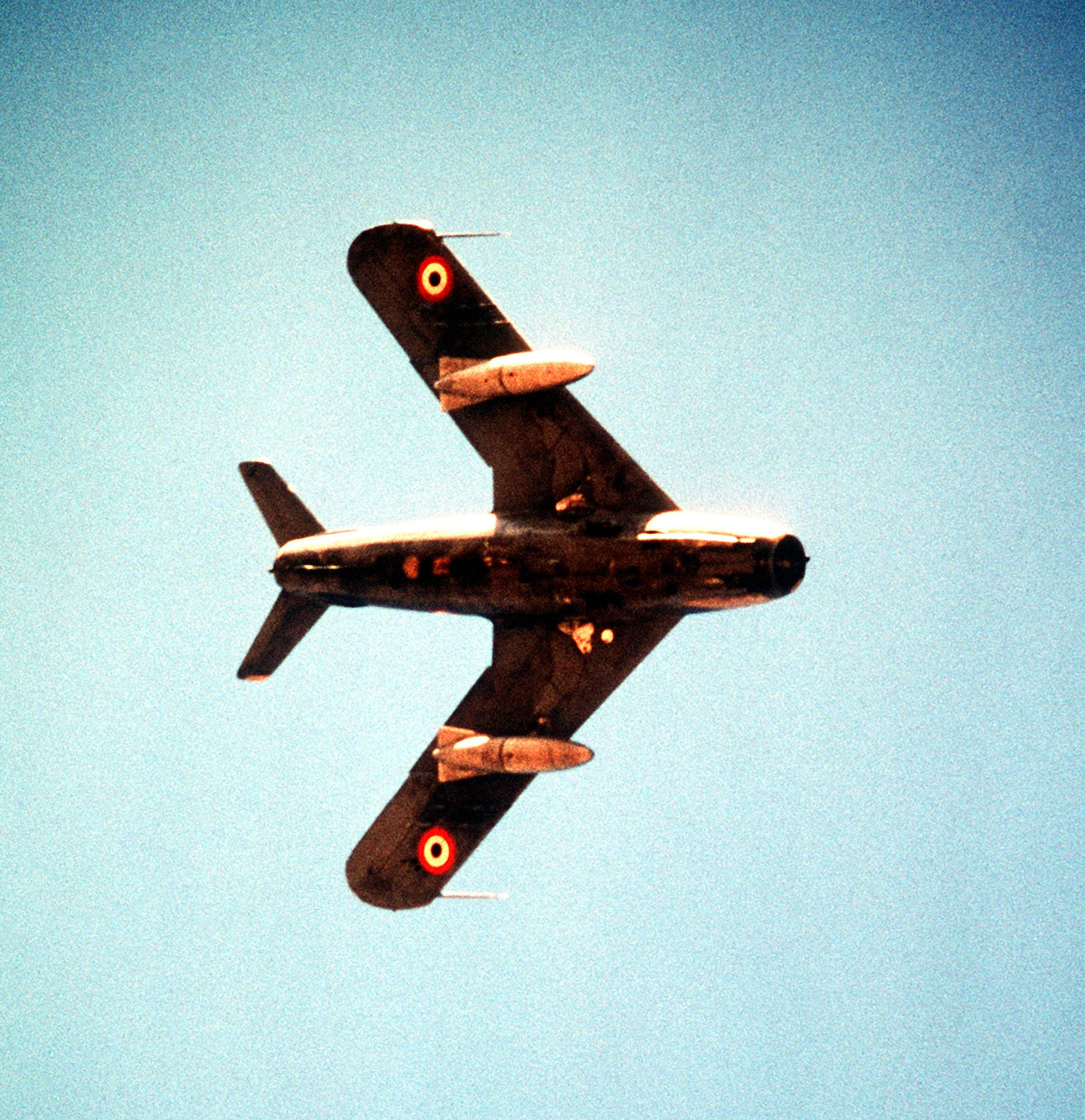 An underside view of an Egyptian (Soviet built) MiG-17F aircraft in flight.